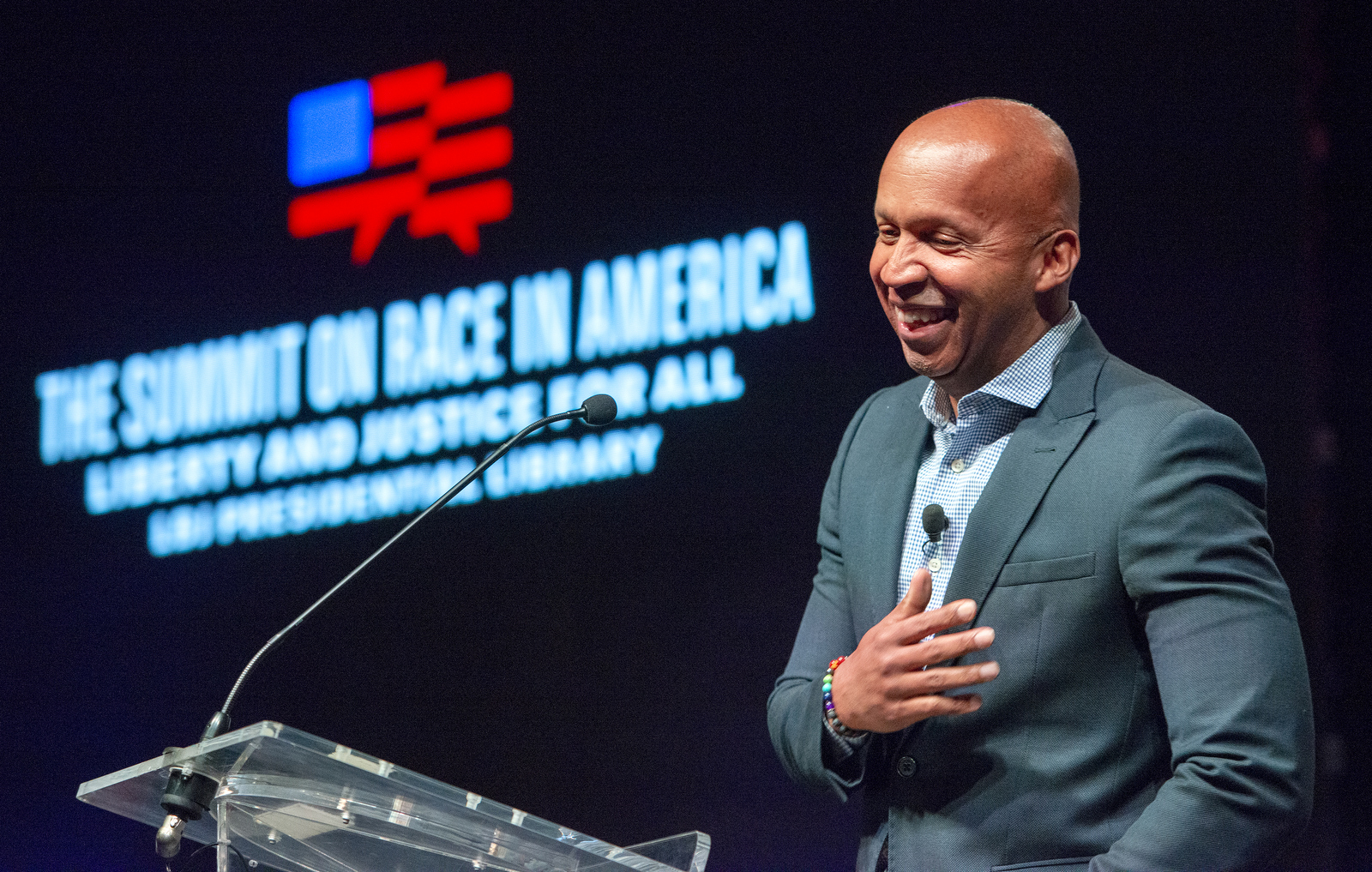 Public interest lawyer Bryan Stevenson, founder and executive director of the Equal Justice Initiative in Montgomery, Alabama, speaks about his mission at The Summit on Race in America at the LBJ Presidential Library on Tuesday, April 9, 2019. His nonprofit challenges poverty and racial injustice, advocates for equal treatment in the criminal justice system, and creates hope for marginalized communities.